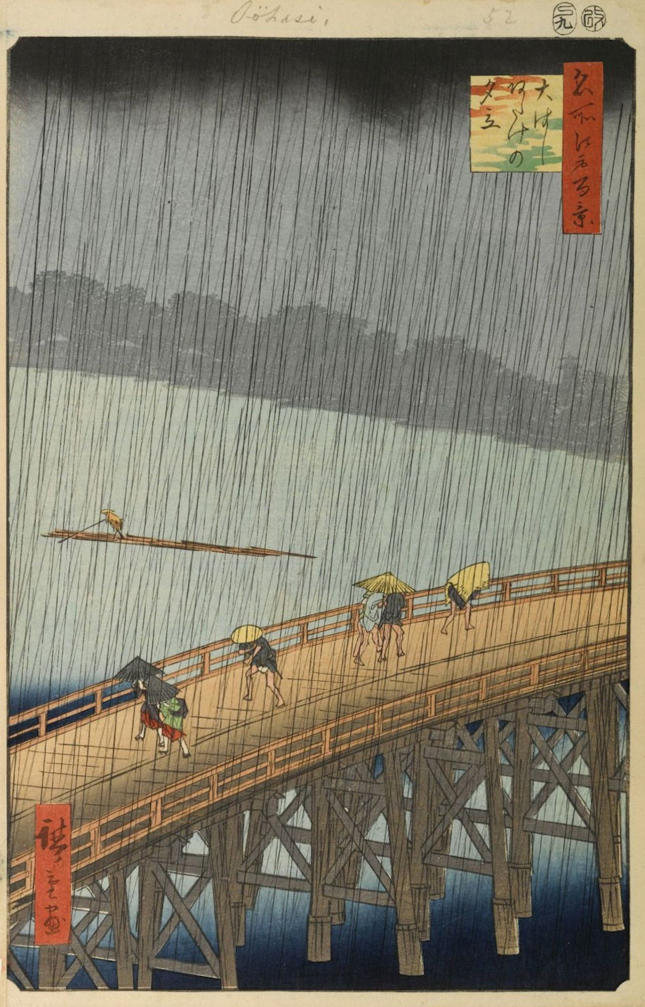 Part of the series One Hundred Famous Views of Edo, no. 058, part 2: Summer.